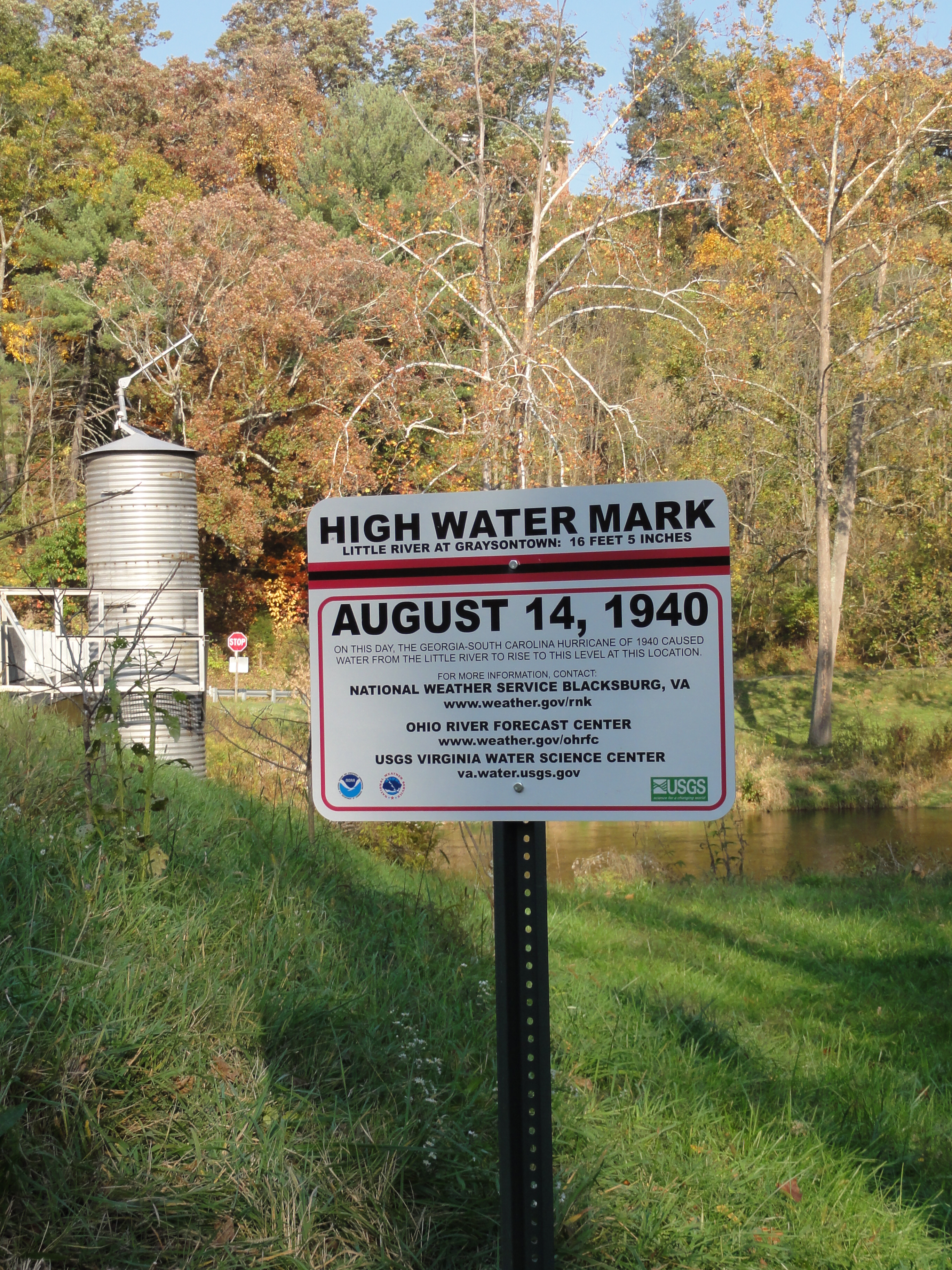 NWS-USGS High Water Mark (HWM) sign located along the Little River at Snowville in Pulaski County, Virginia. The USGS stream gauge is in the background on the left.